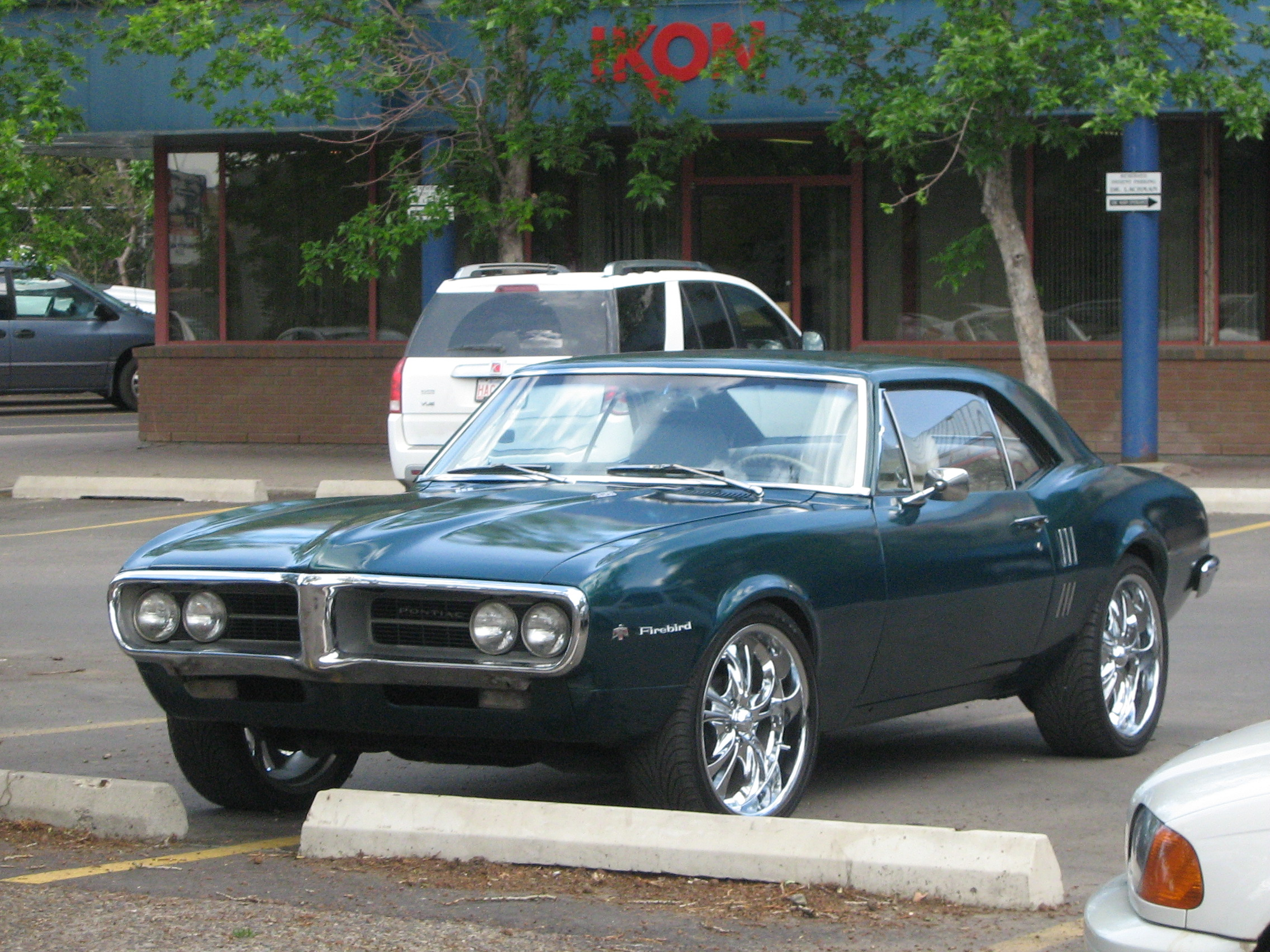 A 1967 Pontiac Firebird with some big rims